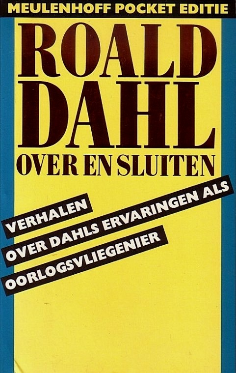 Roald Dahl: Over en sluiten. Verhaalen over Dahls ervaringen als oorlogsvliegenier, Amsterdam 1993 - Dutch translation of Over to You (1946)